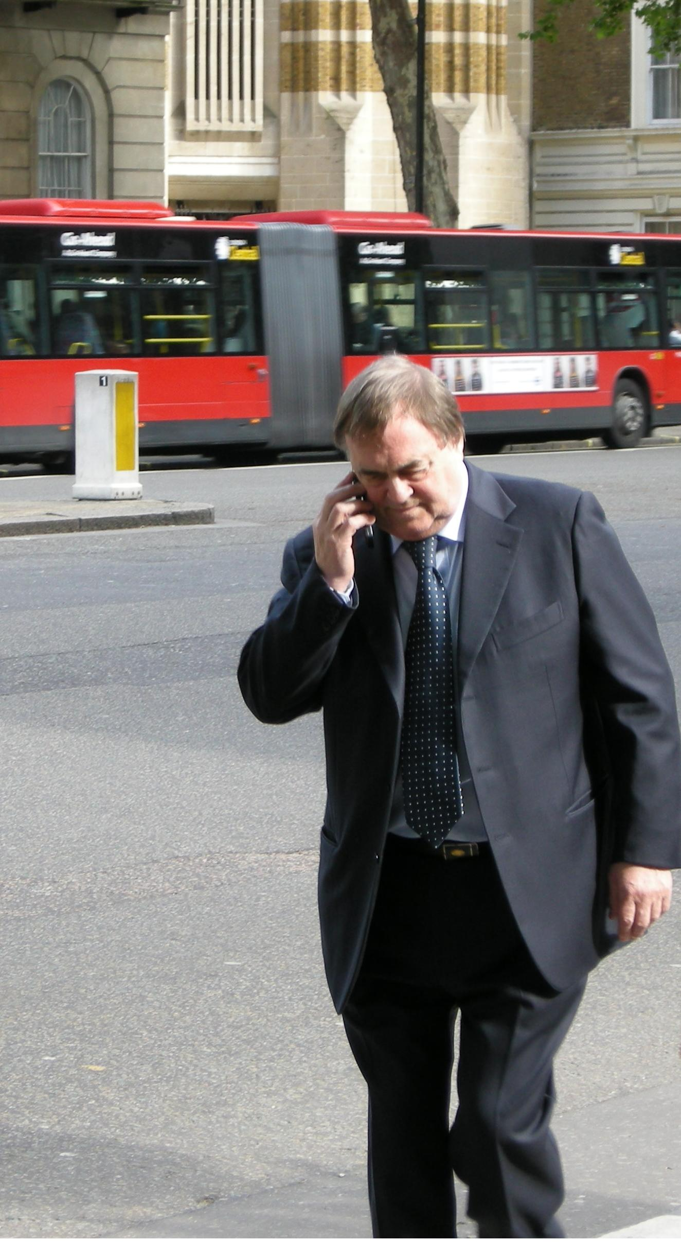 Author: Getoar